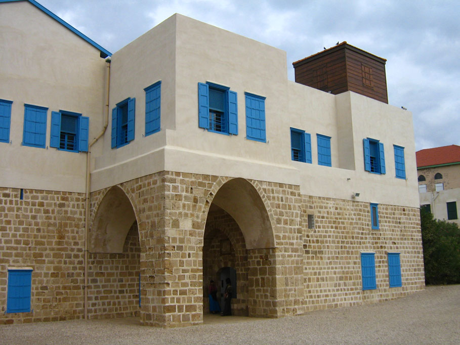 Front view of the house of Abdu'llah Pasha, in Akká (Acre), Israel. Taken by me during a 9-day pilgrimage in November 2006.